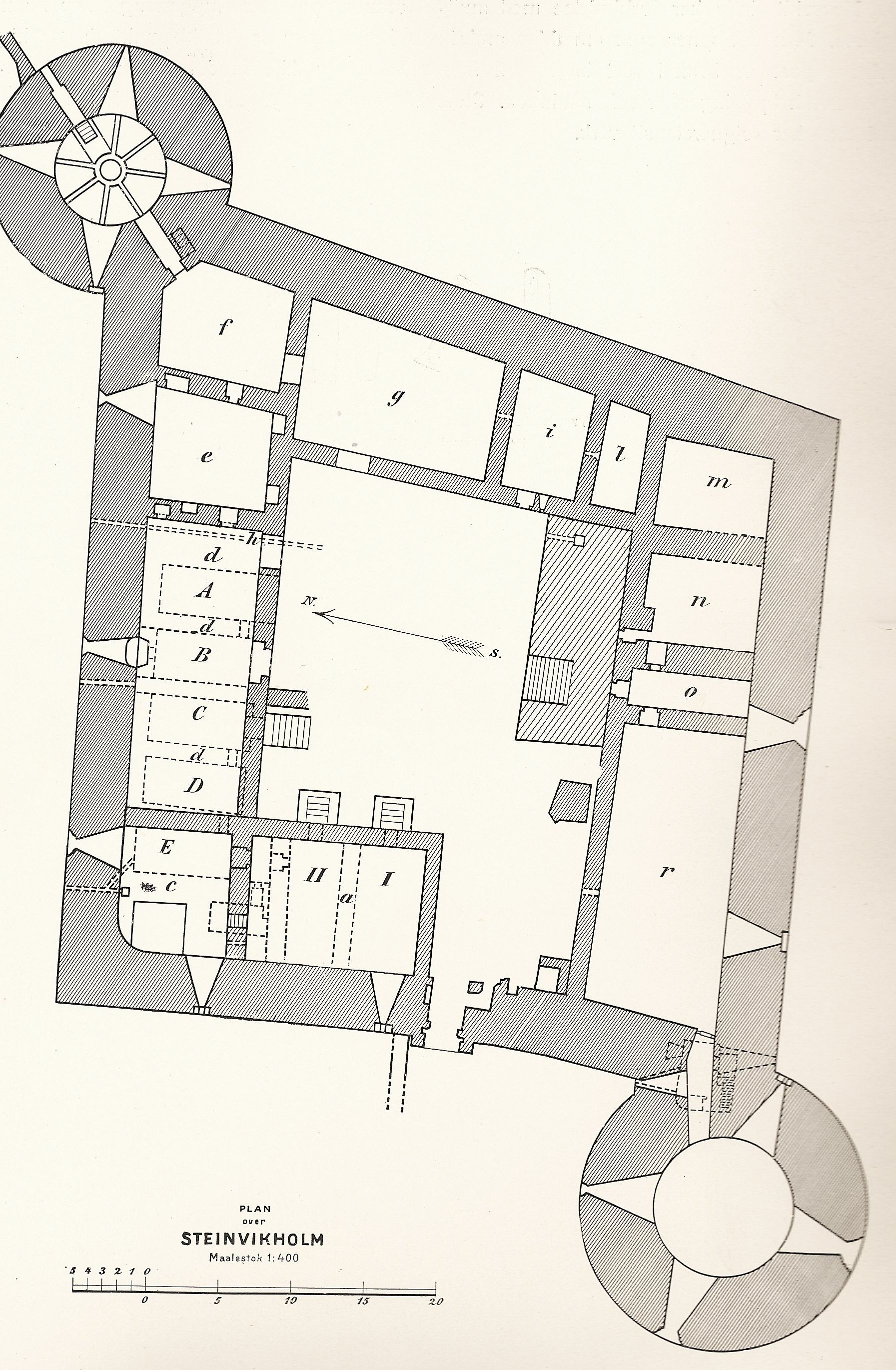 Map for the castle of Steinvikholm outside Skatval in Stjørdal, Norway. Norsk (bokmål): Grunnplan for Steinvikholm slott utenfor Skatval i Stjørdal, Nord-Trøndelag.